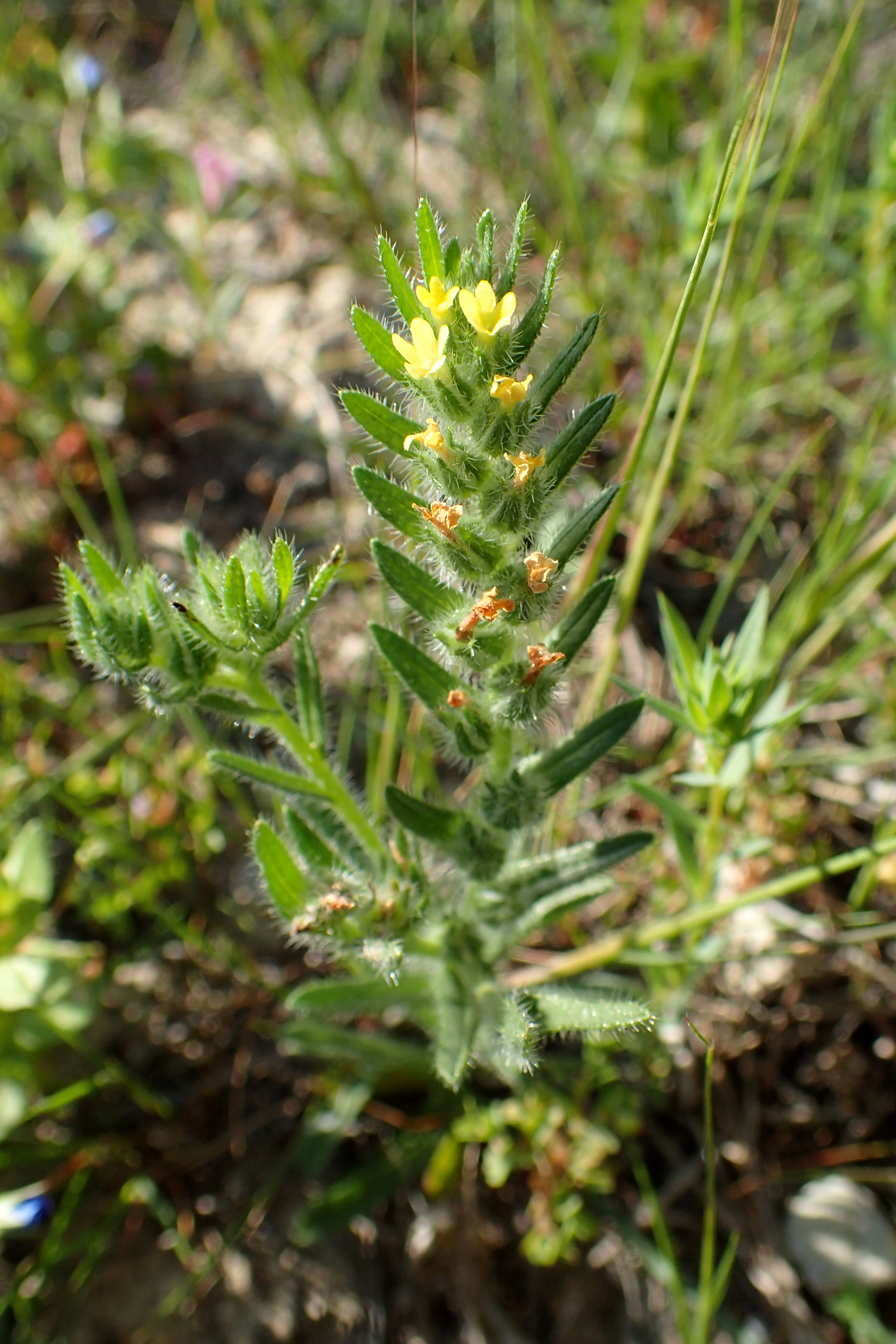 Neatostema apulum at Petra tou Ramiou, Cyprus